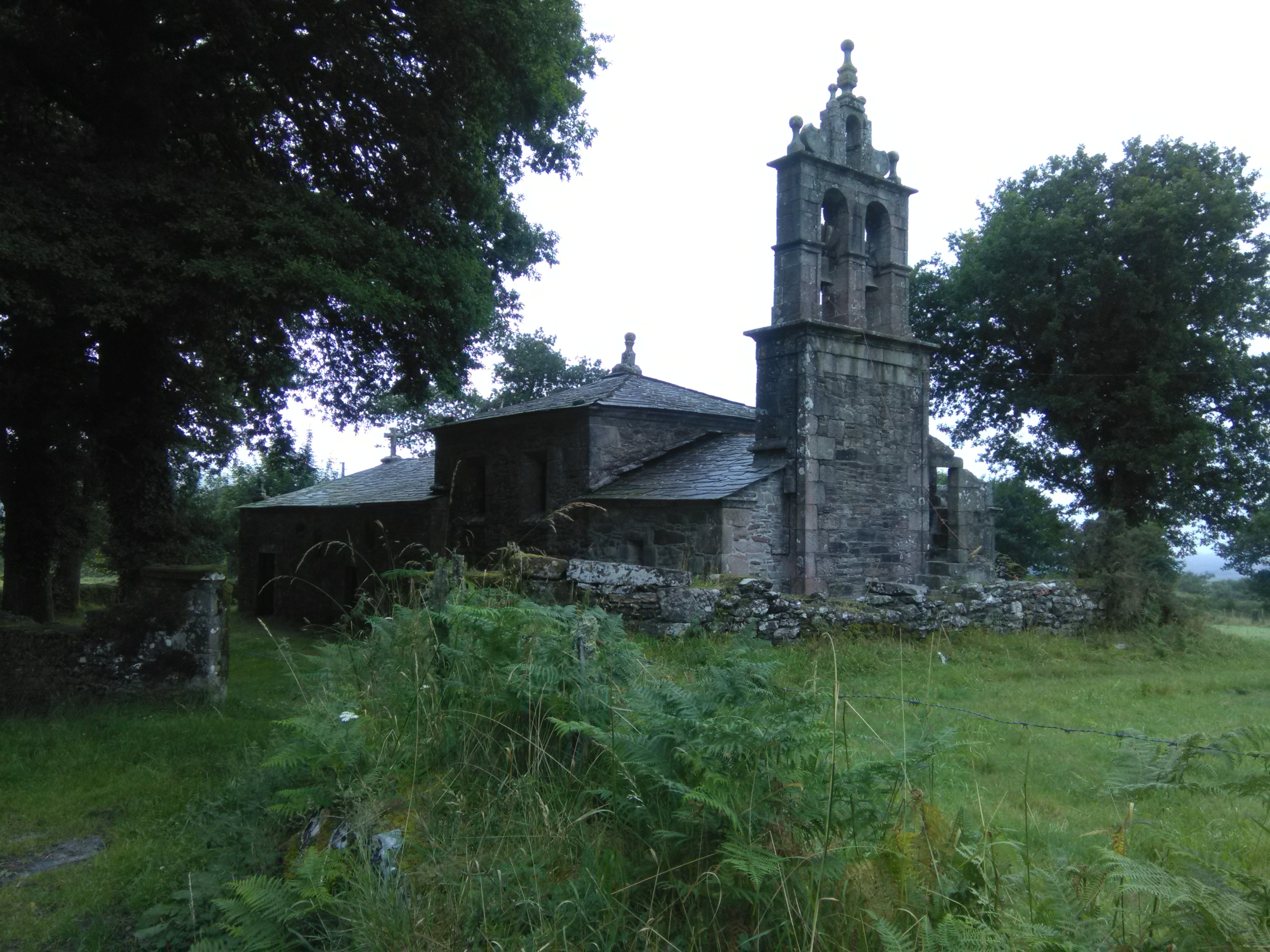 Parish church of A Balsa in the municipality of Muras, province of Lugo (Spain)